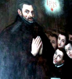 Father Robert Persons, English Jesuit, founder of the English colleges of Valladolid, Sevilla and Saint-Omer.